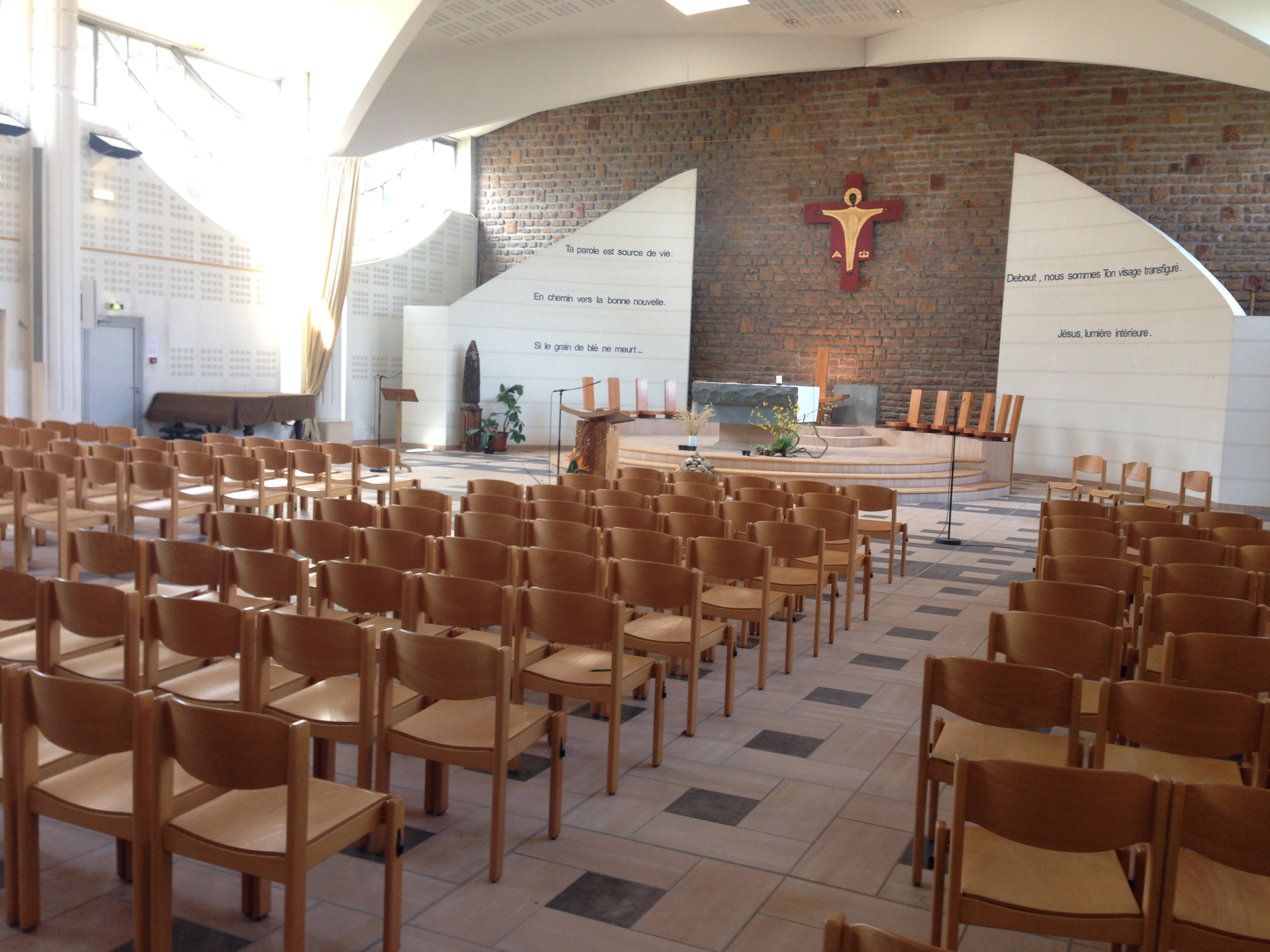 Photo of the place where the European Hackathon will be held in 2015.